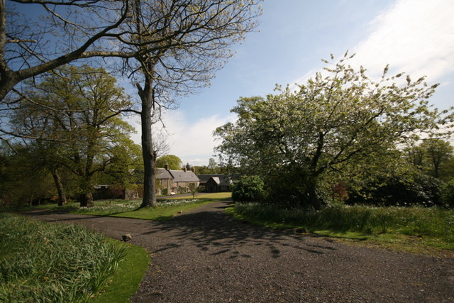 Geilston House, near Cardross, Argyll and Bute (formerly W. Dunbarton), is owned by the National Trust for Scotland along with its ornamental garders